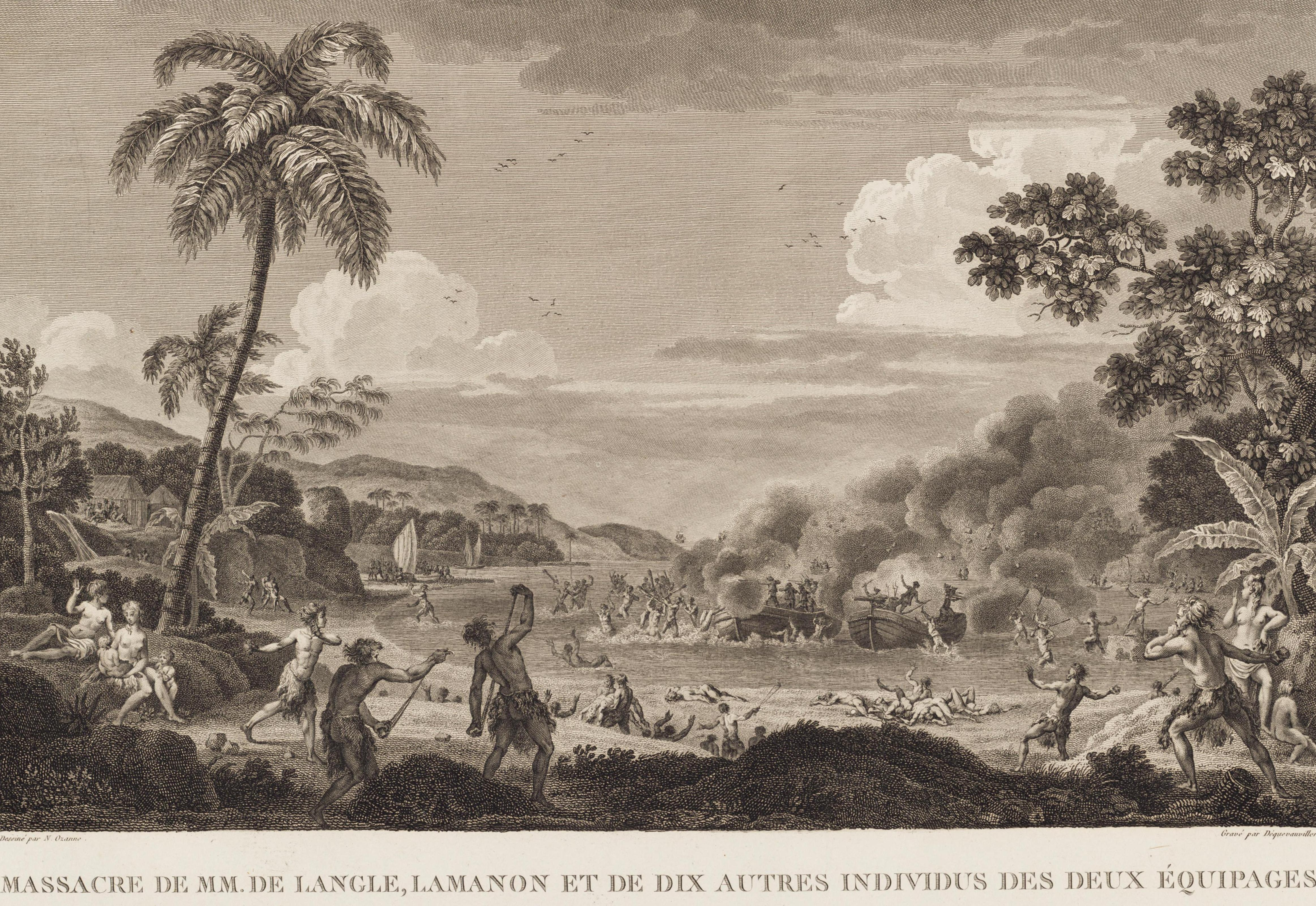 Engraving of the death of Commander Fleuriot Angle and 12 men in 1788 on the island of Maouna. The two boats came to fetch water are attacked by the natives. (Shipping La Perouse in the Pacific Ocean, 1785-1788)